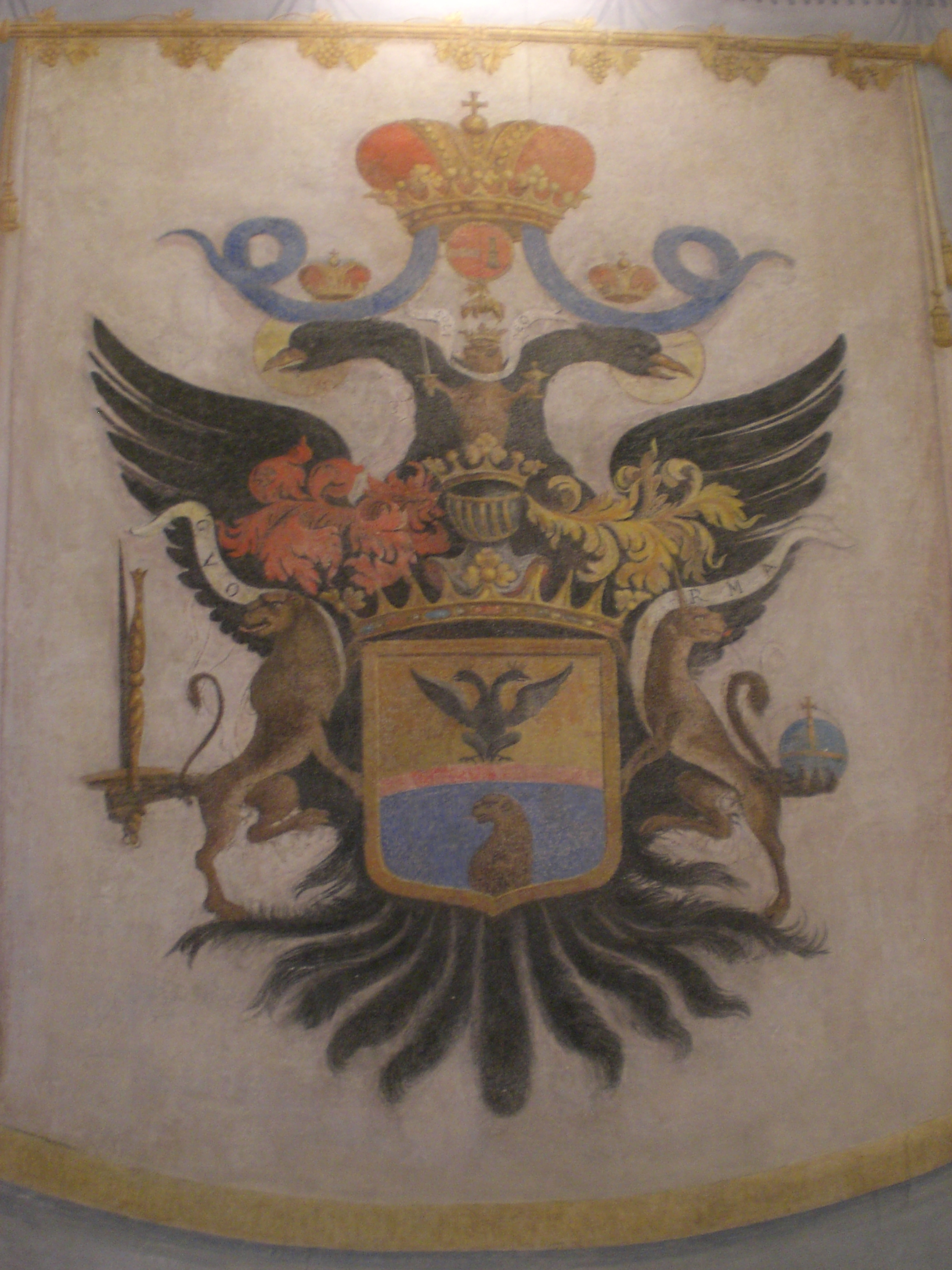 Jesi, Pianetti Palace, Pianetti Family Coat of Arms